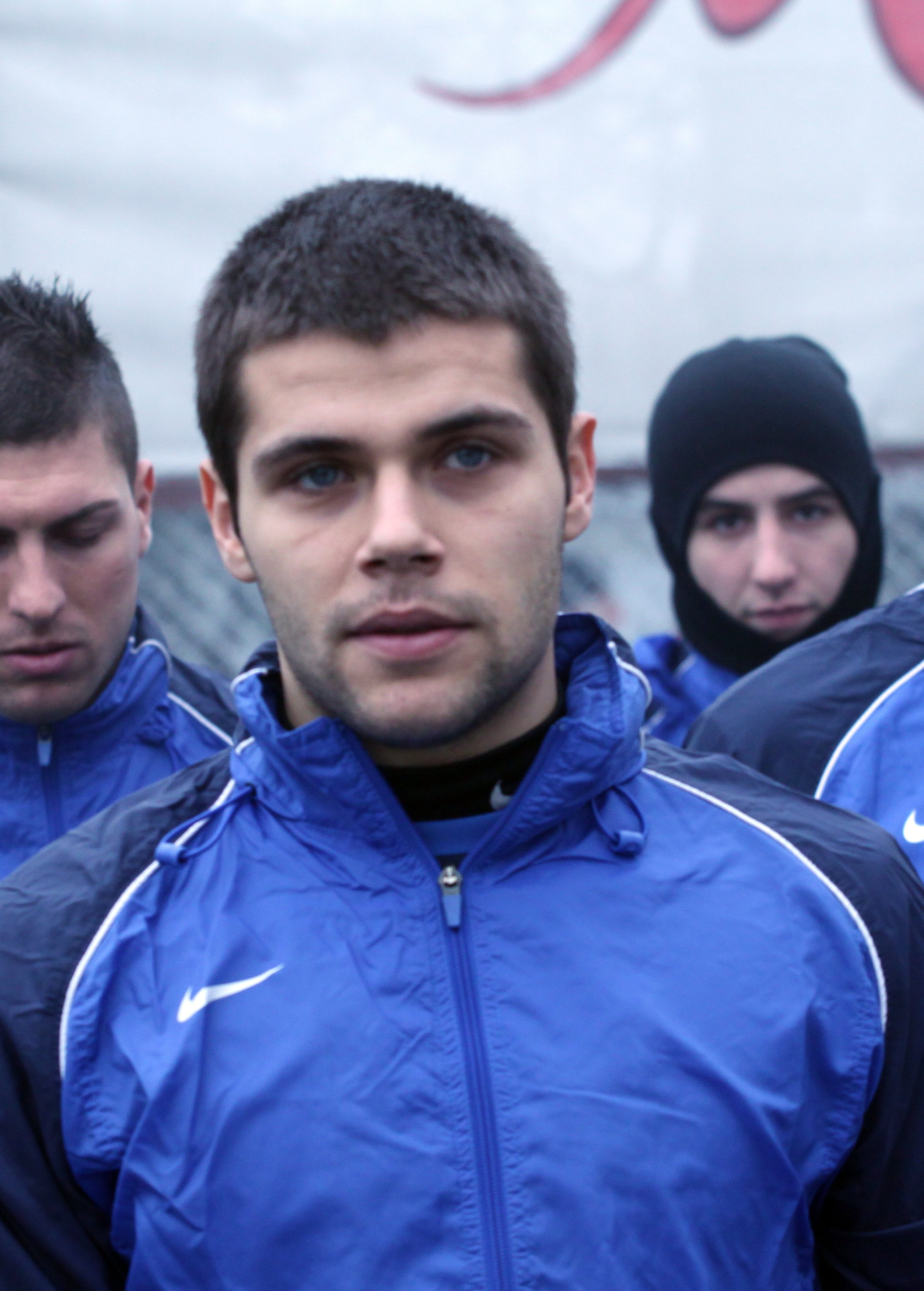 Stefan Stanchev (born on 26 April 1989) is a Bulgarian footballer currently plays for Levski Sofia. Stanchev is a right defender.